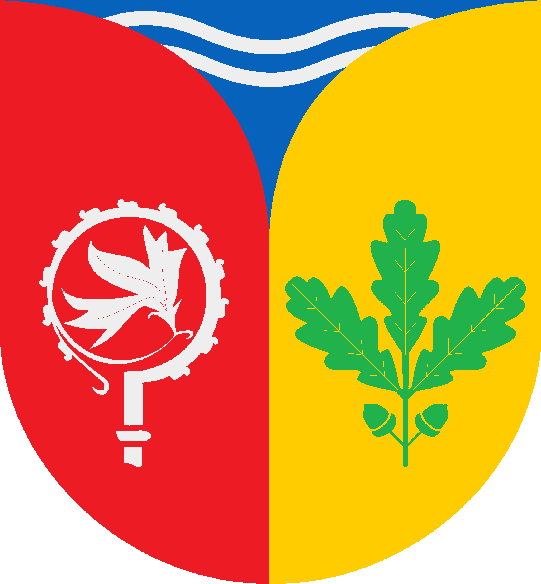 Coat of arms of the town (Stadt)Schwentinental in Schleswig-Holstein, Germany.